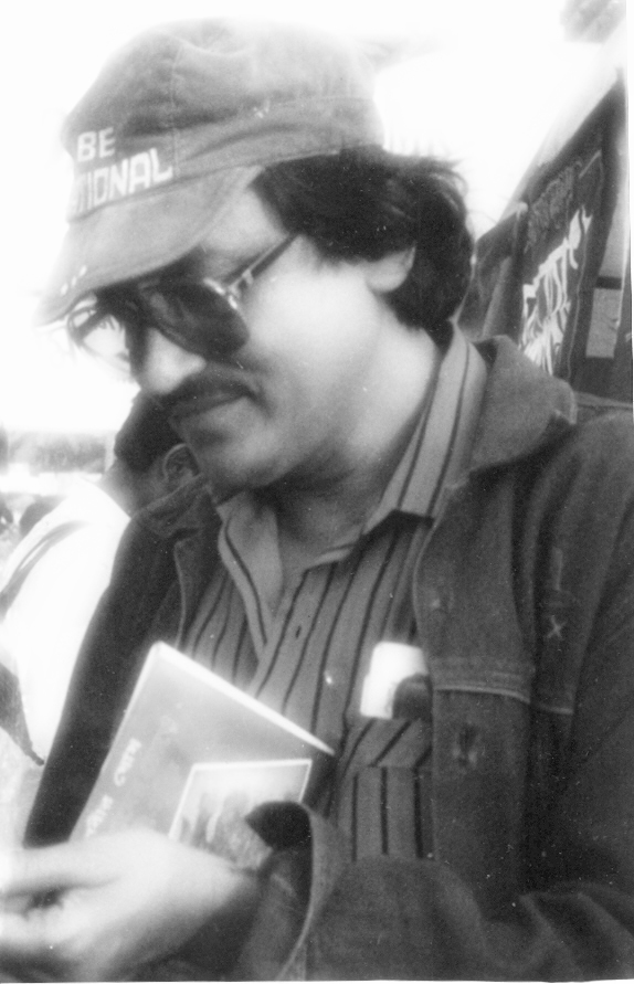 Image of Prabir Ghosh, private photo by User:Pinaki ghosh.